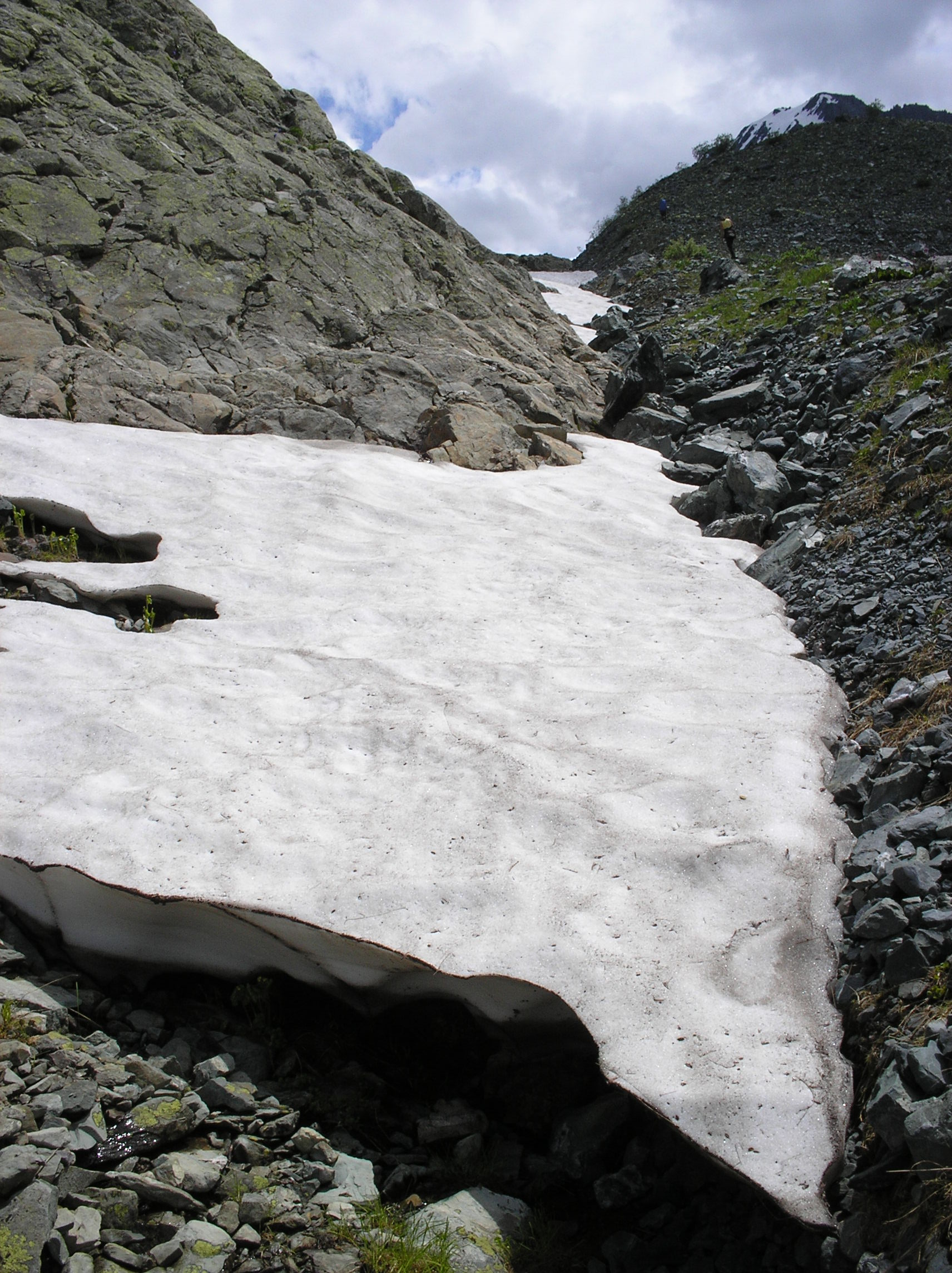 Snowfield on the slopes of Kuyguk Pass (Ust-Koksinsky District, Altai Republic, Russia)